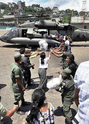 Guatemalan soldiers unloading supplies from a Joint Task Force-Bravo UH-60 Blackhawk and giving them to residents affected by Tropical Storm Agatha.